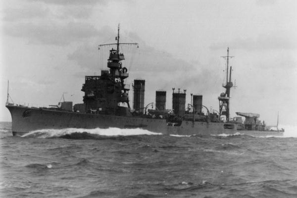 "Jintsu", light cruiser of the Imperial Japanese Navy, on trial run.